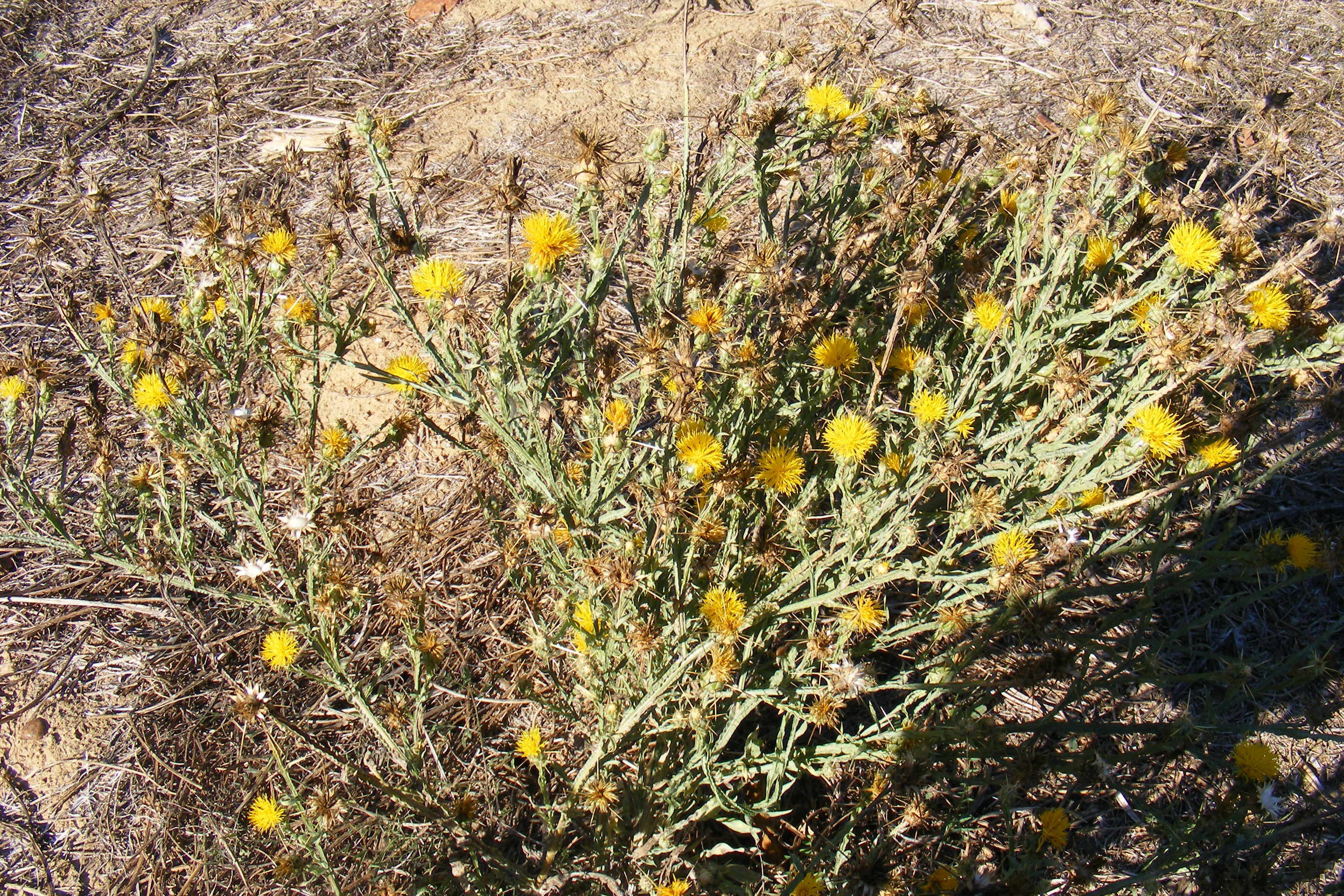 Some yellow star thistle found in California. Photo taken November 7, 2007 Notes If you are a publisher and would like to use these images under a different license please contact me and we can negotiate different terms. You can find my entire image collection here: User:J.smith/gallery